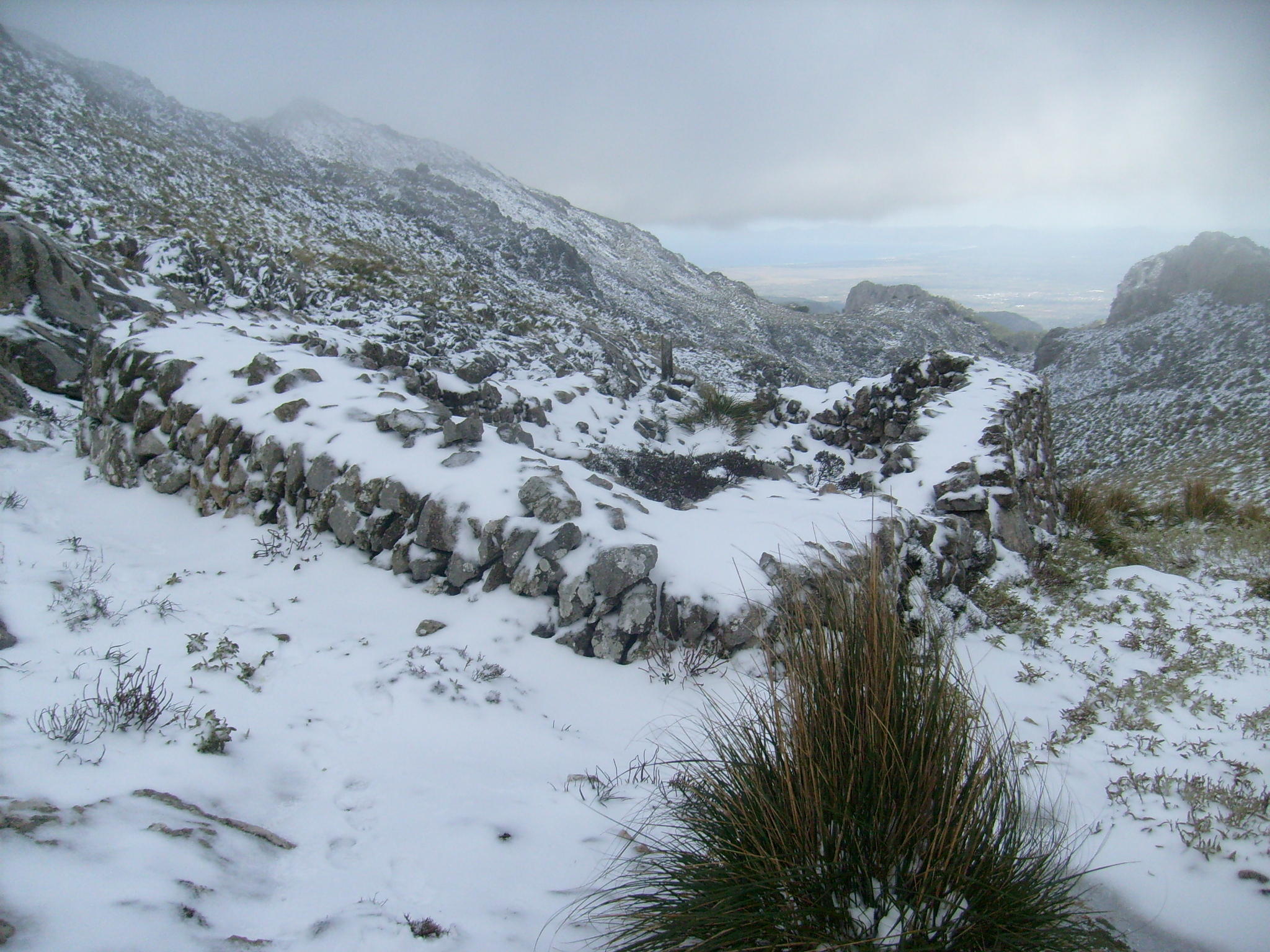 GR 221 - Massanella: "Snowhouse" (casa de neu) in the background: Bahia de Alcudia